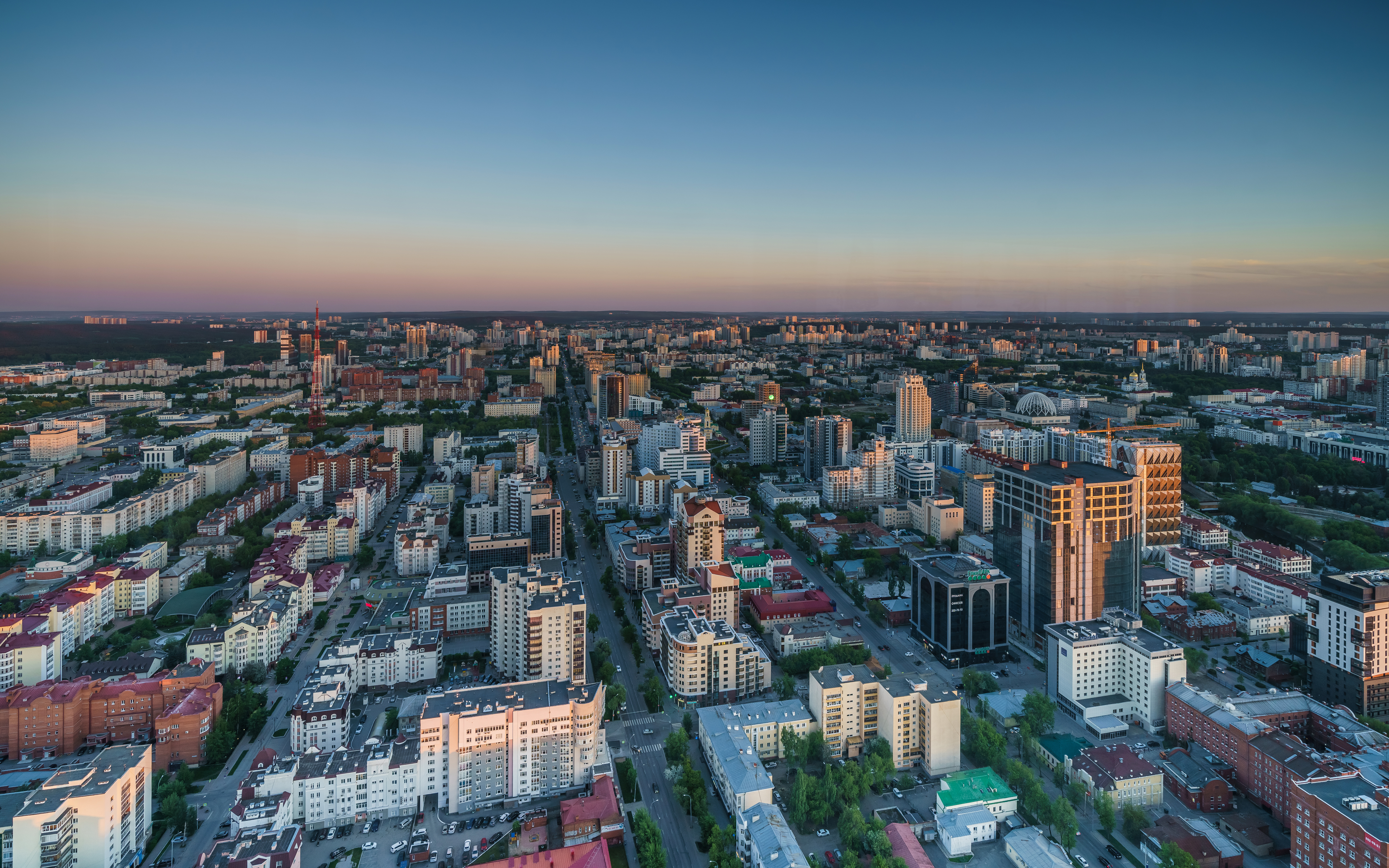 View from VysotSky Tower viewpoint in Ekaterinburg, Russia